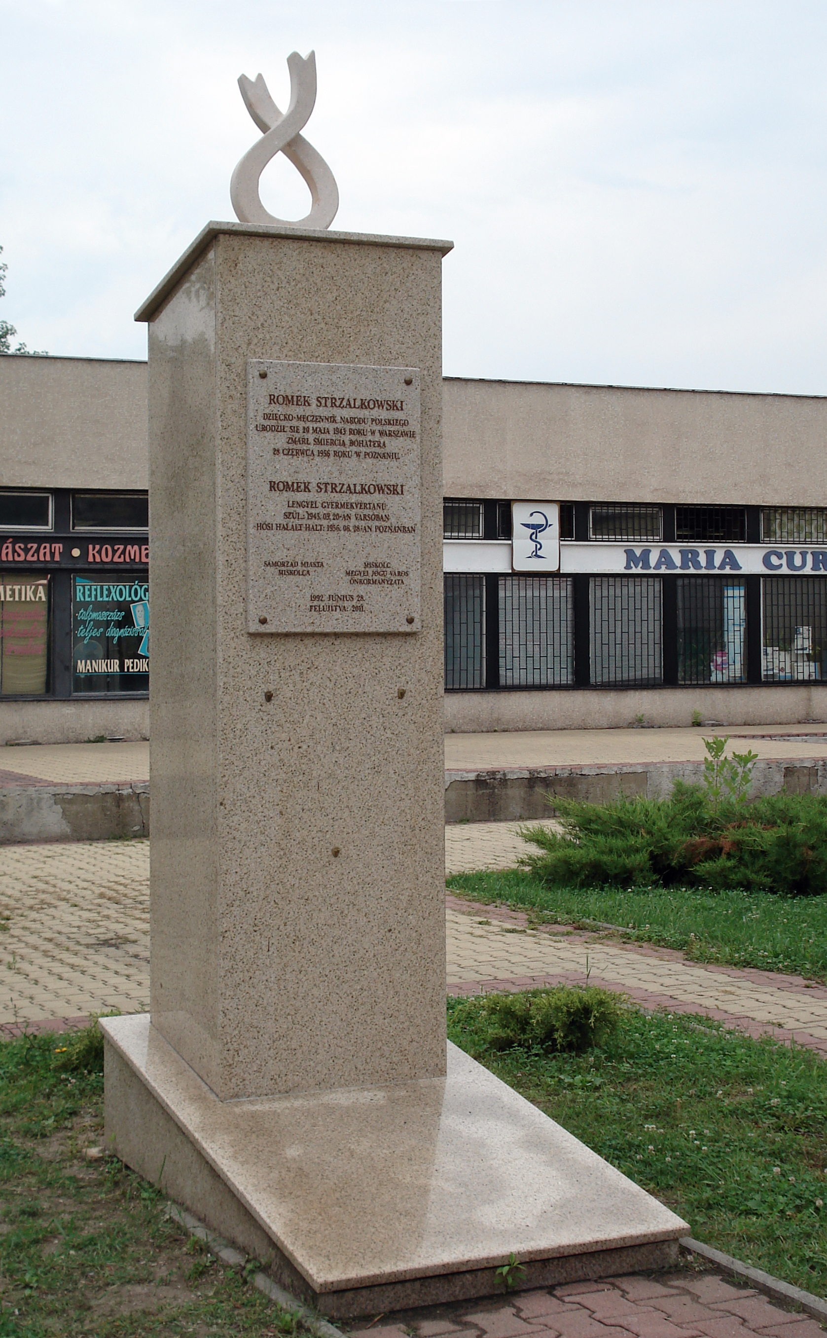 Ágnes Máger: Romek Strzałkowski monument. Stone mason: László Gyöngyösi. Miskolc, Hungary